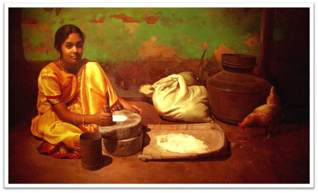 A Tamil girl grinding rice dry flour to prepare powder to use to draw KOLAM at door steps. Tamil people uses rice dry flour to draw KOLAM at their houses, since they decorate the enterance of their houses and simultenously birds also fetch this as food. Fool proof for this, look at the picture that she allows the bird to fetch some at the time she grinds the flour.